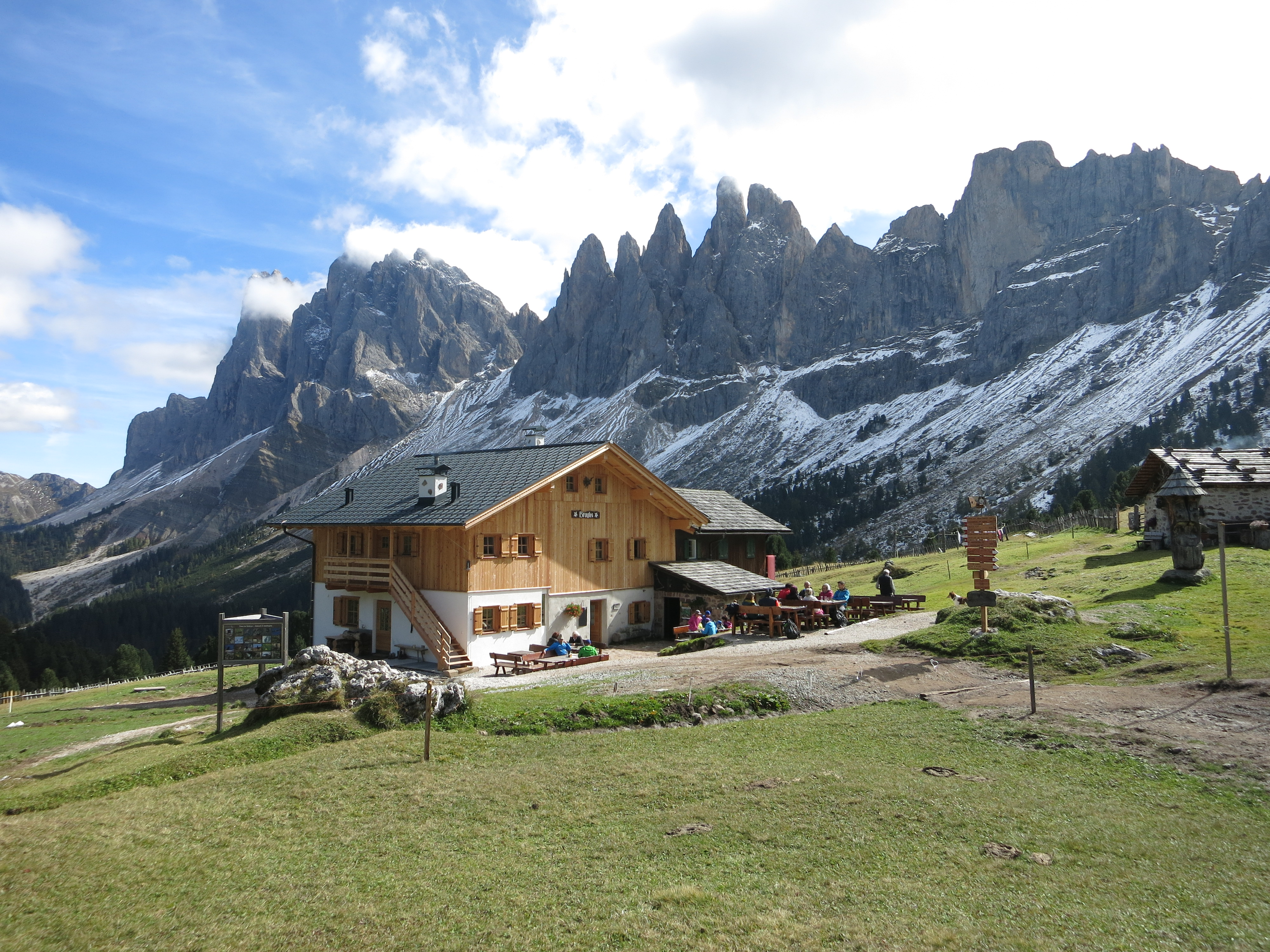 Brogleshütte in South Tyrol (Italy)